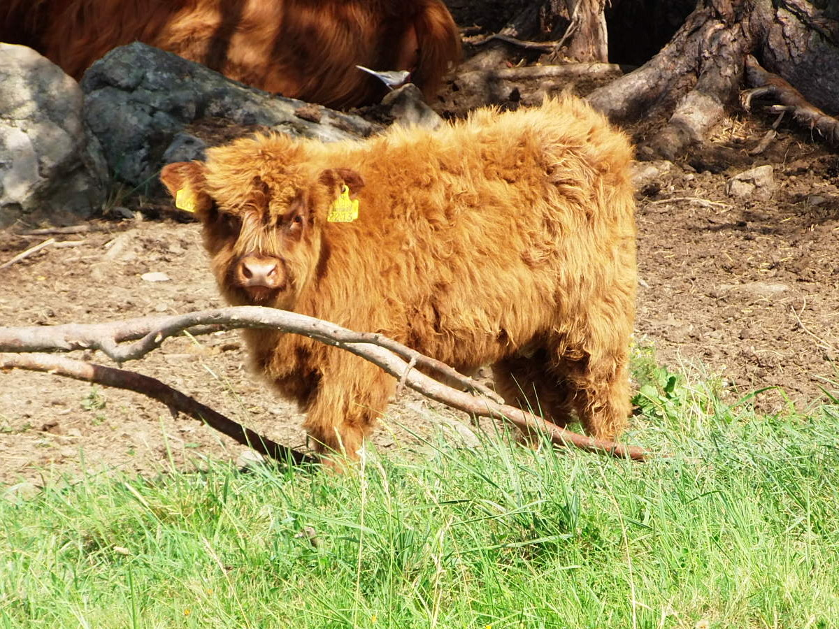 Highland cattle the calf